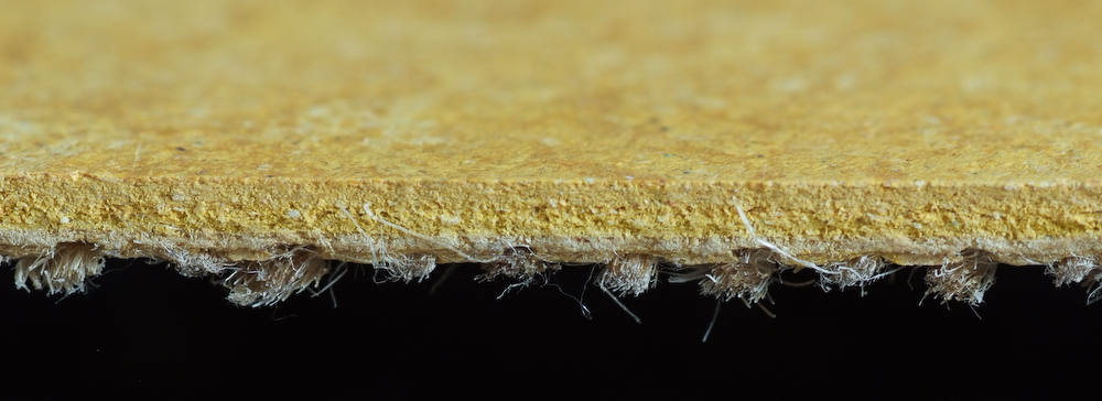 Yellow linoleum, cross-section.